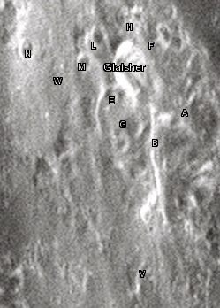 Glaisher lunar crater as seen from Earth with satellite craters labeled